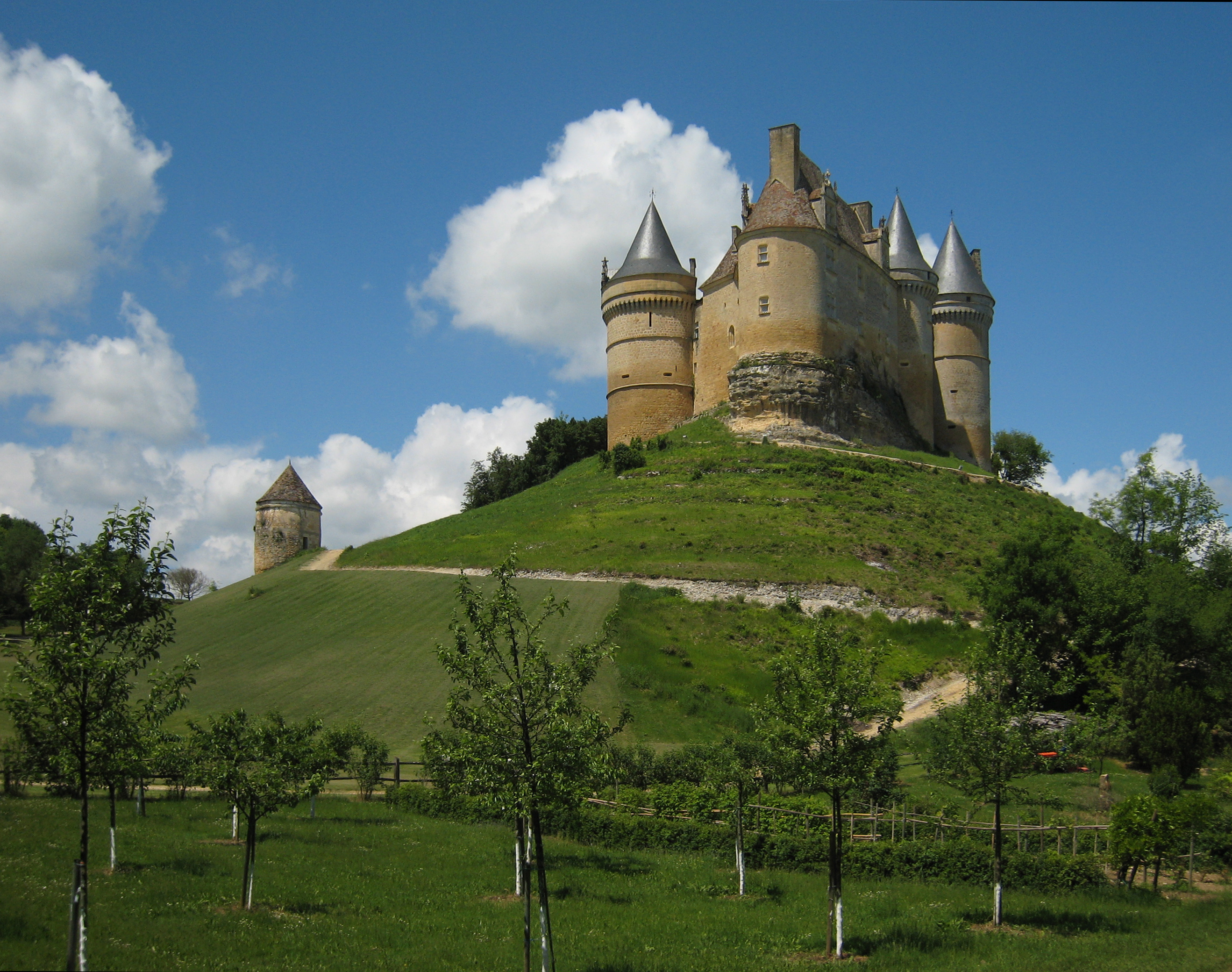 Château de Bannes near the village of Beaumont-du-Périgord, Département Dordogne/France.